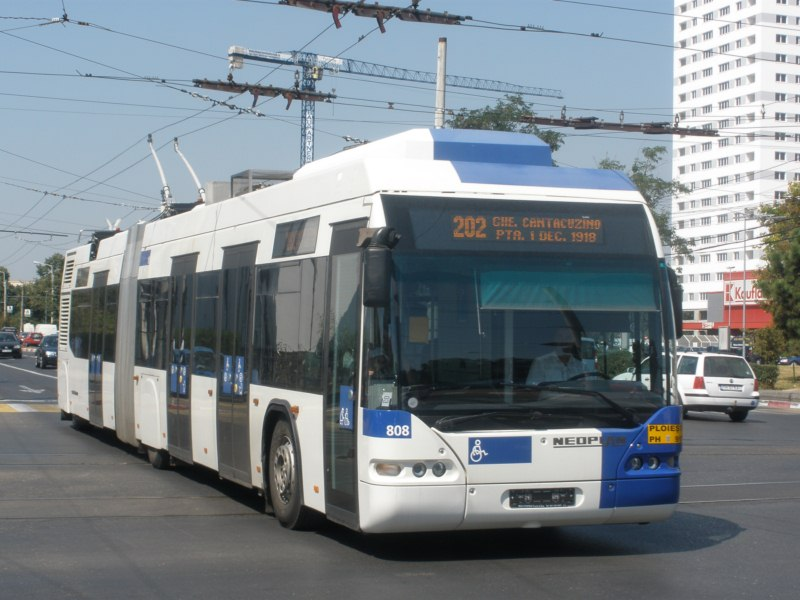 Ex-Lausanne (Switzerland) dual-mode Neoplan trolleybus in service in Ploiesti, Romania, on route 202.